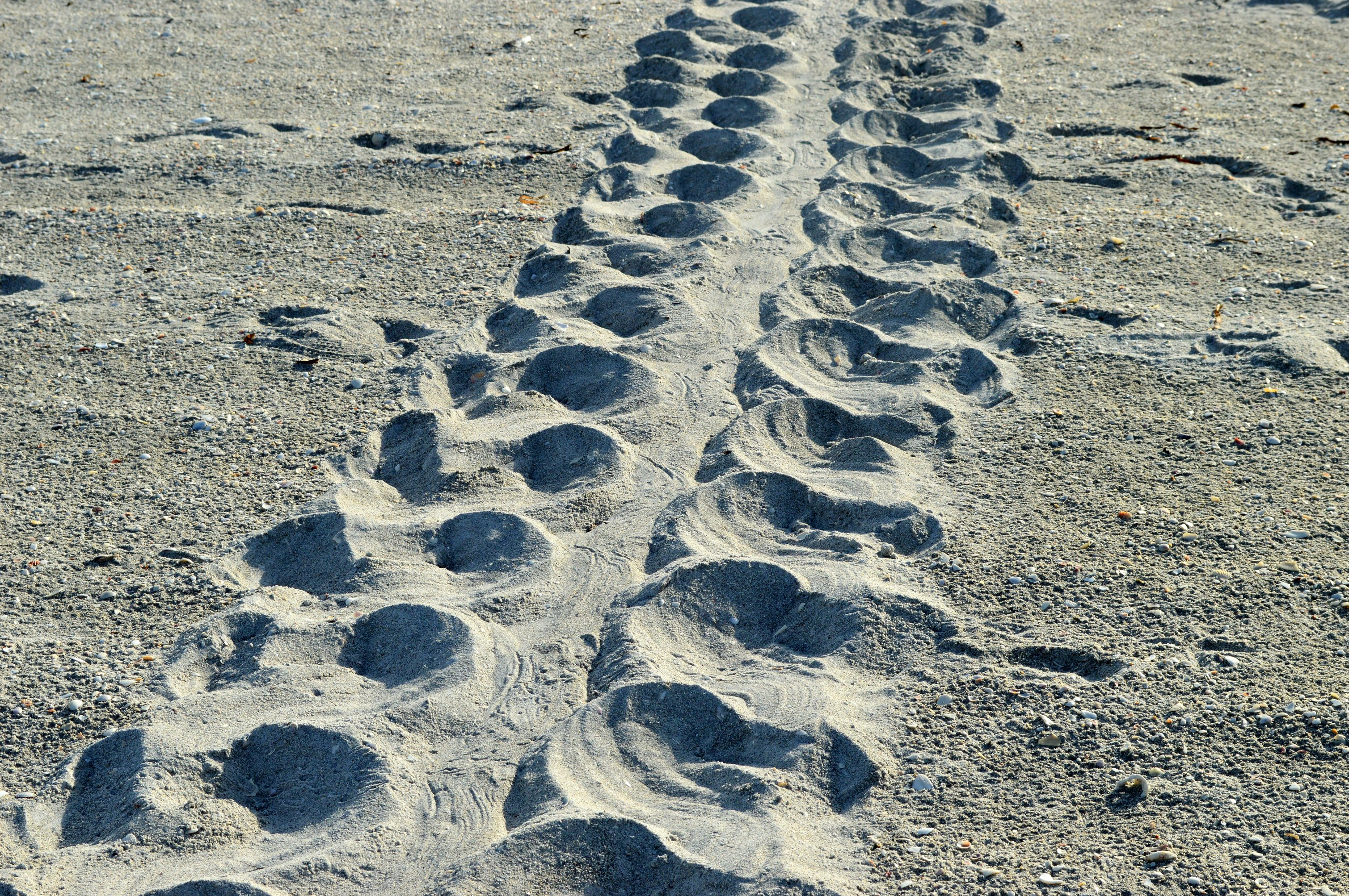 Loggerhead turtle (Caretta caretta) track on beach, Sanibel Island, Florida, USA